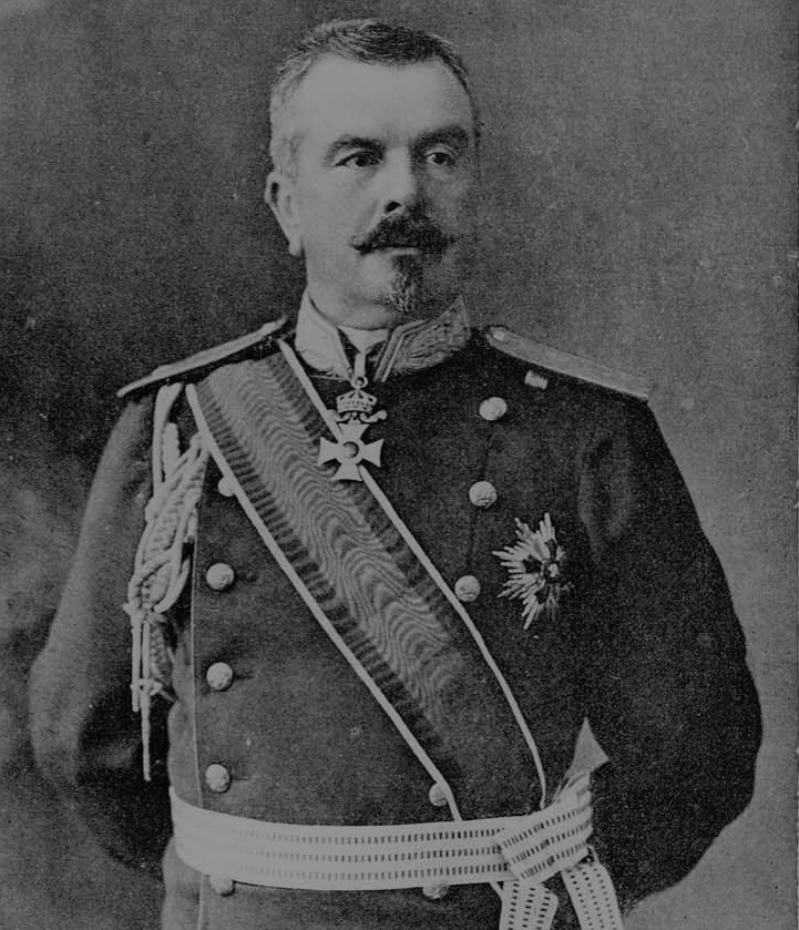 General Ivan Fichev as chief of General Staff of the Bulgarian army.